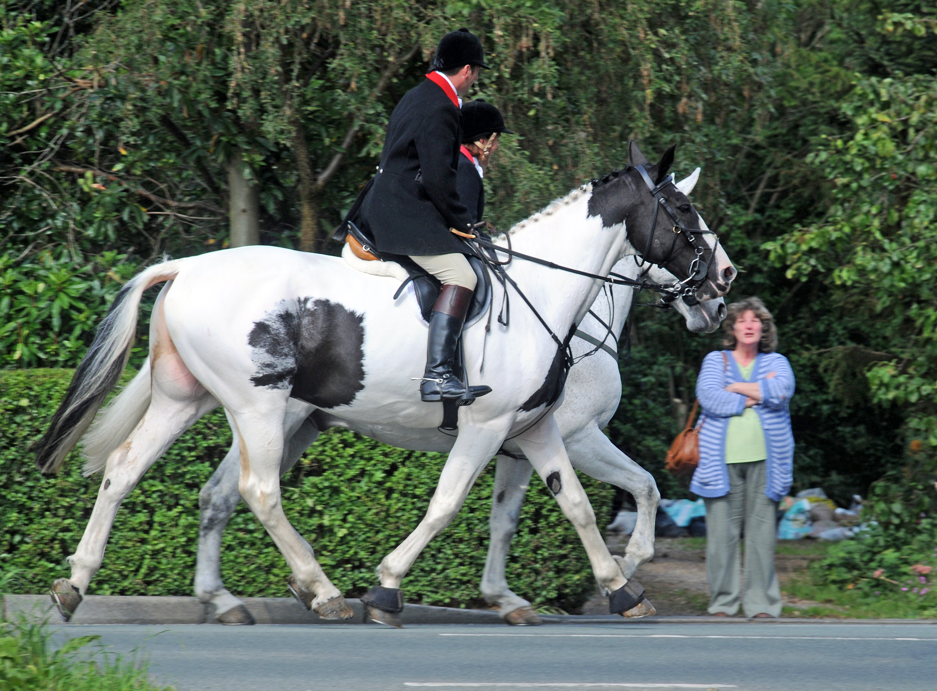 Extensively spotted horse on the way to fox hunt. Round shape near the groin and ermine spots in the hind pasterns hint at Tobiano genetics, jagged spotting edges at Sabino, and triangle-shaped blaze that retains the "lipstick", i.e. pigment on the rim of the upper lip, would point at Splashed White. The roaning at the hind knee is an weird phenomenon that cannot be explained by any known roaning or greying factors; it could be the result of a spontaneous mutation and thus a genetically unique pattern, or result of partial chimerism such as witnessed to explain equine brindle.